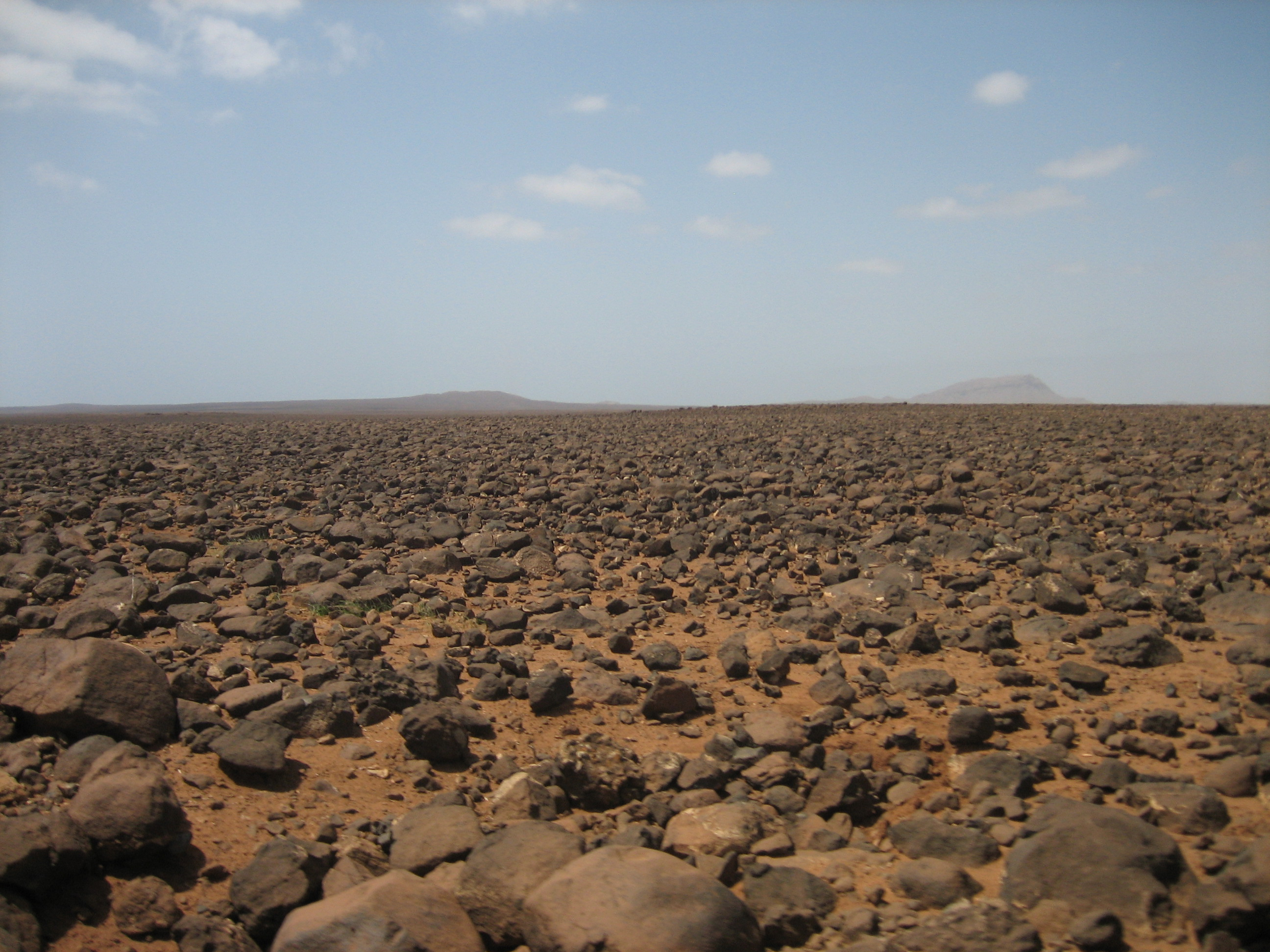 Rock desert (hamada) inside the island of Boa Vista